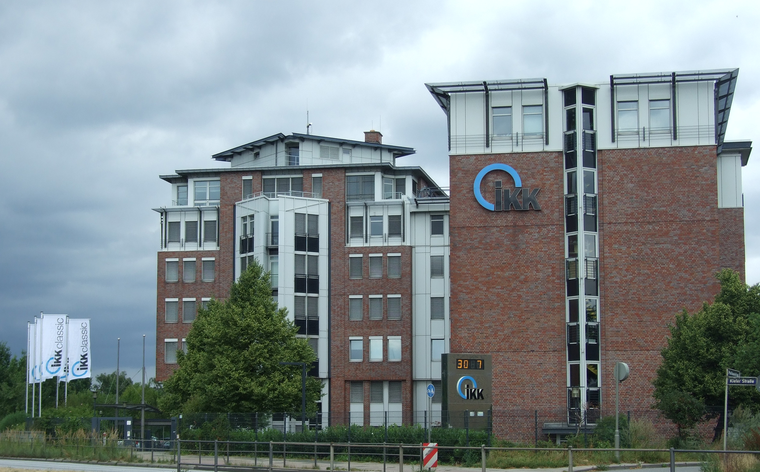 IKK classic - Hamburg